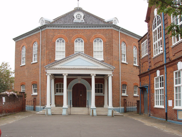 Octagon Unitarian Chapel, Norwich The Presbyterians built this chapel in 1756 on the site of their 1680 chapel. The architect was Thomas Ivory. See church website for contact and service times, and Norfolk Churches website for an enthusiastic account and history. "A place in history" on the EDP site also describes the building and its history. Not long after its building some Presbyterian congregations in England were moving more to the Unitarian view that there is only one God rather than a Trinity, and in 1820 this church became Unitarian. Prominent dissenting families who worshipped there included the botanist and co-founder of the Linnean Society Sir James Edward Smith.